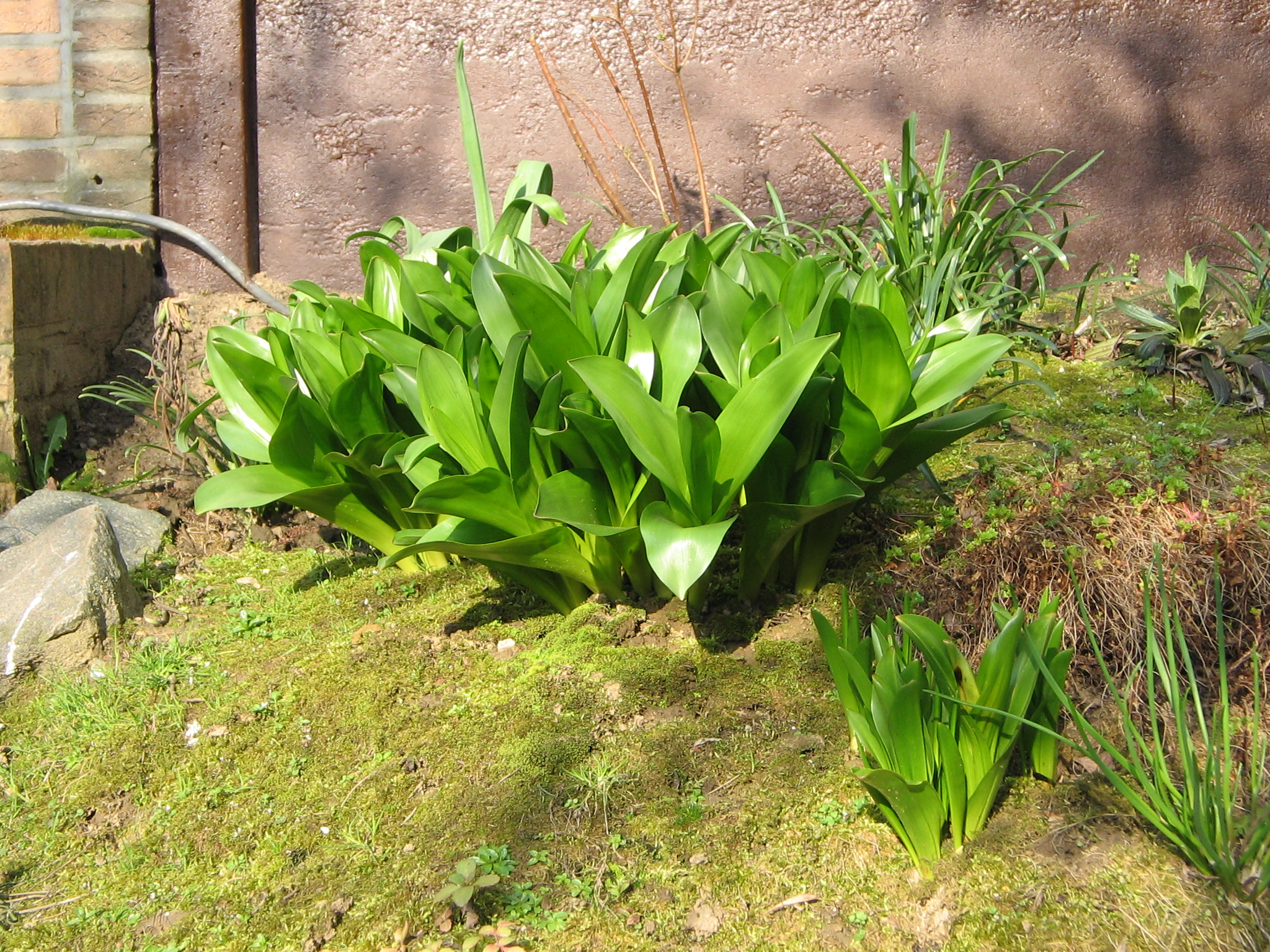 Spring leaves of Colchicum speciosum